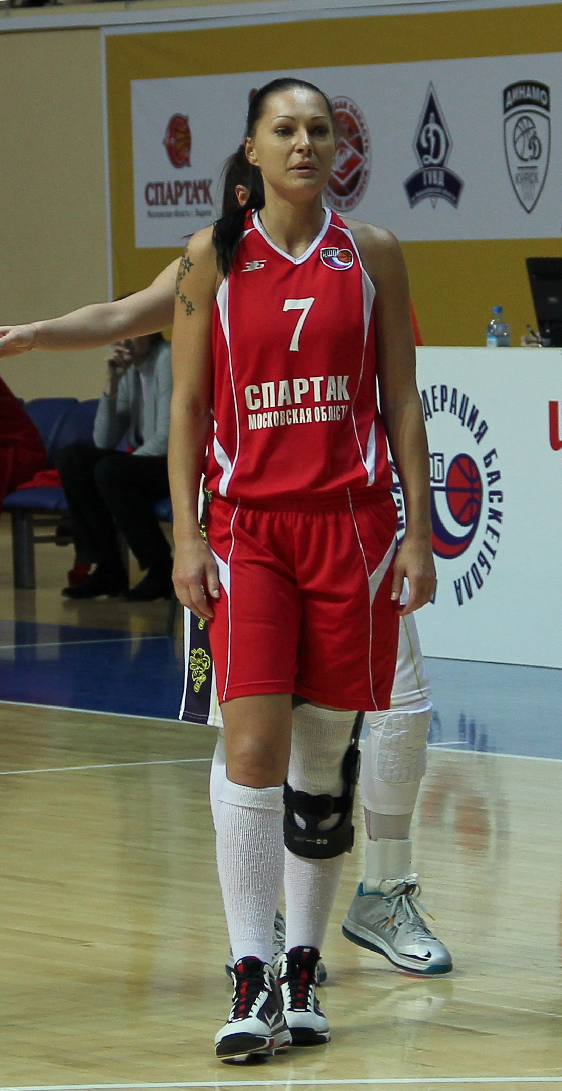 Russia, Marina Karpunina in game «Vologda-Chevakata» vs Spartak (Noginsk)